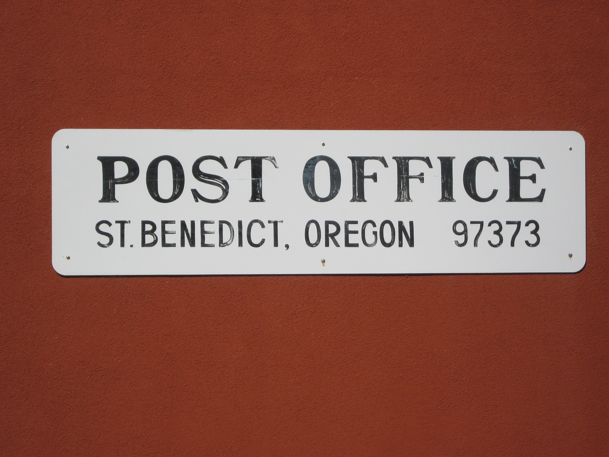 Close up of sign on Saint Benedict Post Office, at Mount Angel Abbey, Saint Benedict, Oregon, 97373.